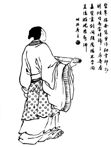 Qing dynasty portrait of Zhong Hui